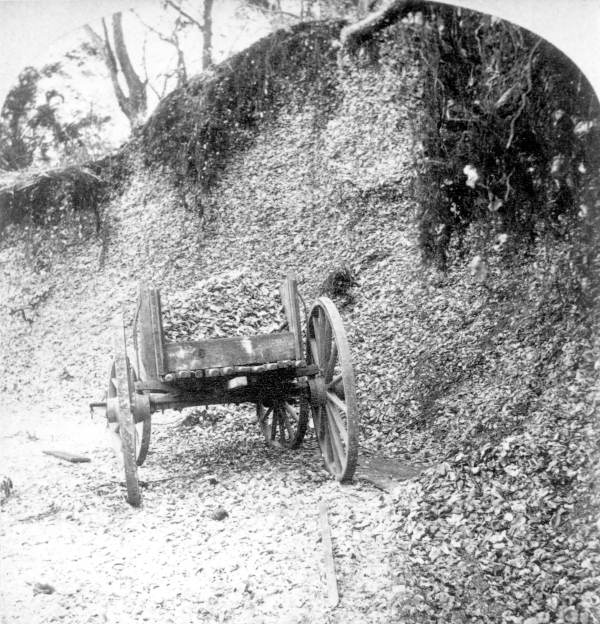 Timucua shell mound that served as a source of building material for tabby structures on Fort George Island